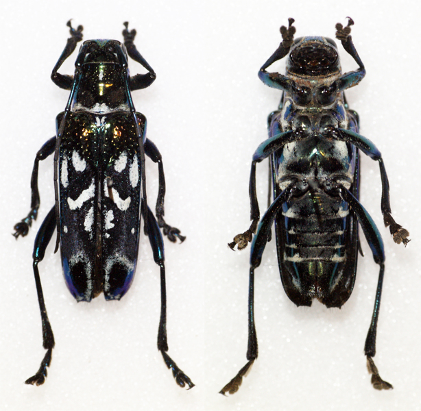 Breuning,1974 Sex: ? Data: 08-2013 - Sierra Madre Mountains - Isabela prov - North Luzon - Philippines Size: ?